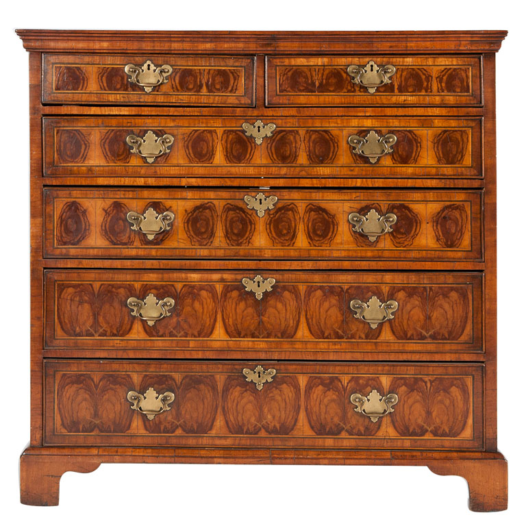 George III oyster burl yew wood chest of drawers with two drawers over four drawers. The top, sides and front are presented with wonderful oyster burl, with string inlays of ebony and satinwood, and banded in walnut. Brass pulls are present on the drawers and the sides. This chest rest on bracket feet. England, 19th Century. Length 117 cm, depth 56 cm, height 114 cm.